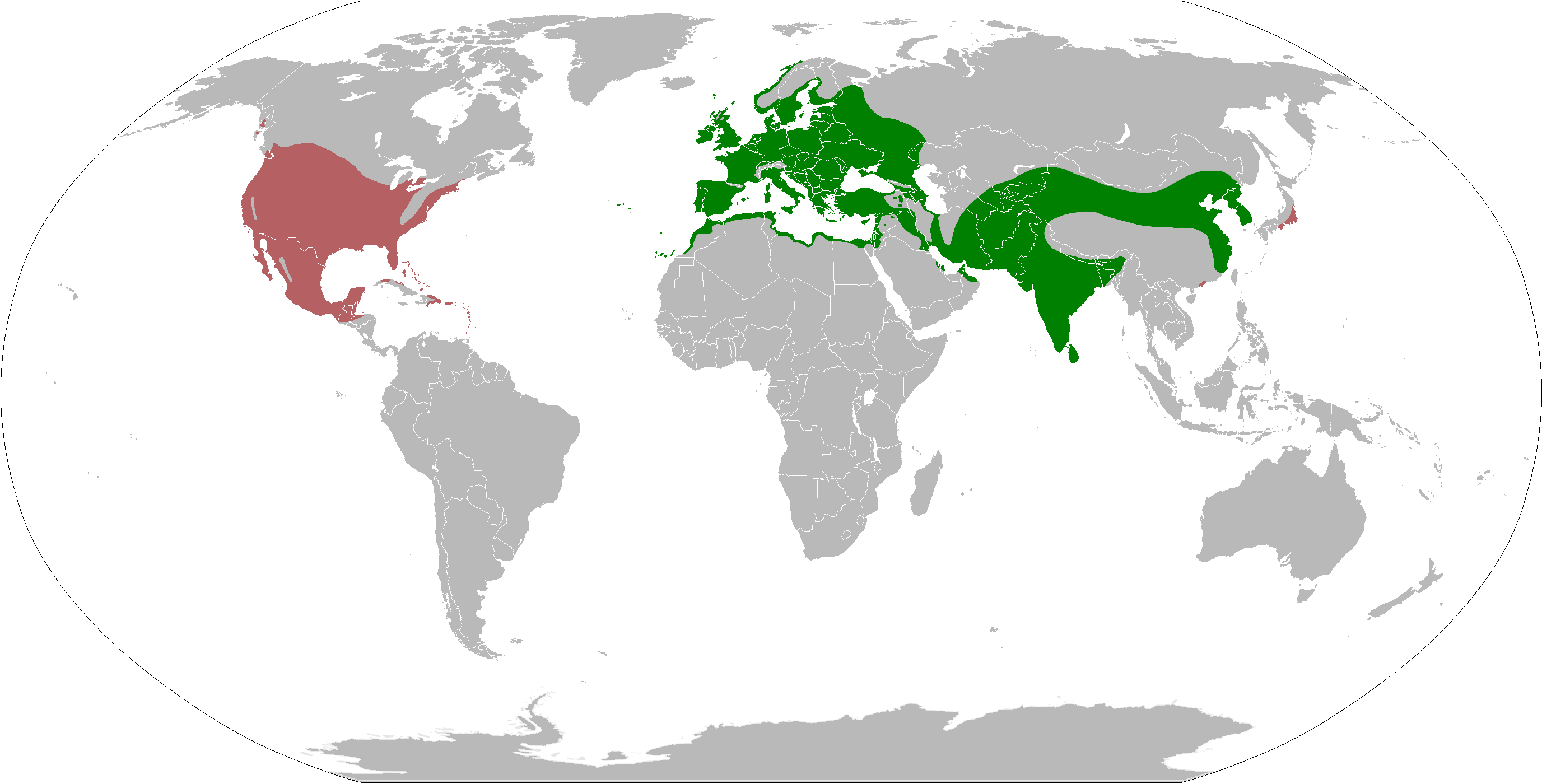 Eurasian collared dove (Streptopelia decaocto) range map. (green=native, red=introduced)